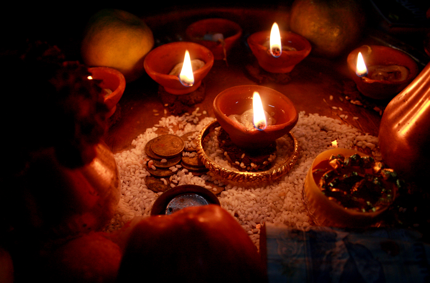 Diwali oil lamps lit during the Diwali, festival of lights on Lakshmi Puja day in Darjeeling.